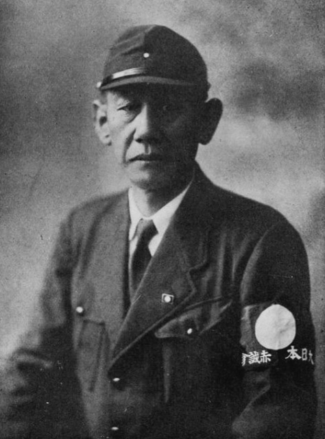 The photograph of Kingoro Hashimoto in unform of